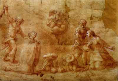 preparatory sketch for "the Martyrdom of Four Saints"